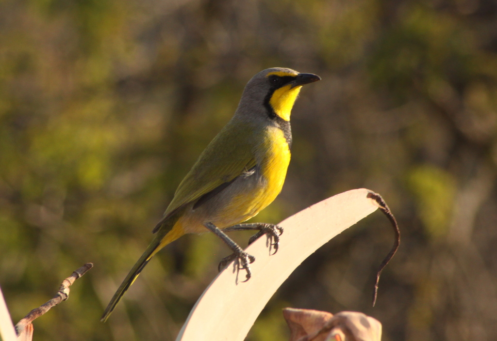 A Bokmakierie in Johannesburg, South Africa